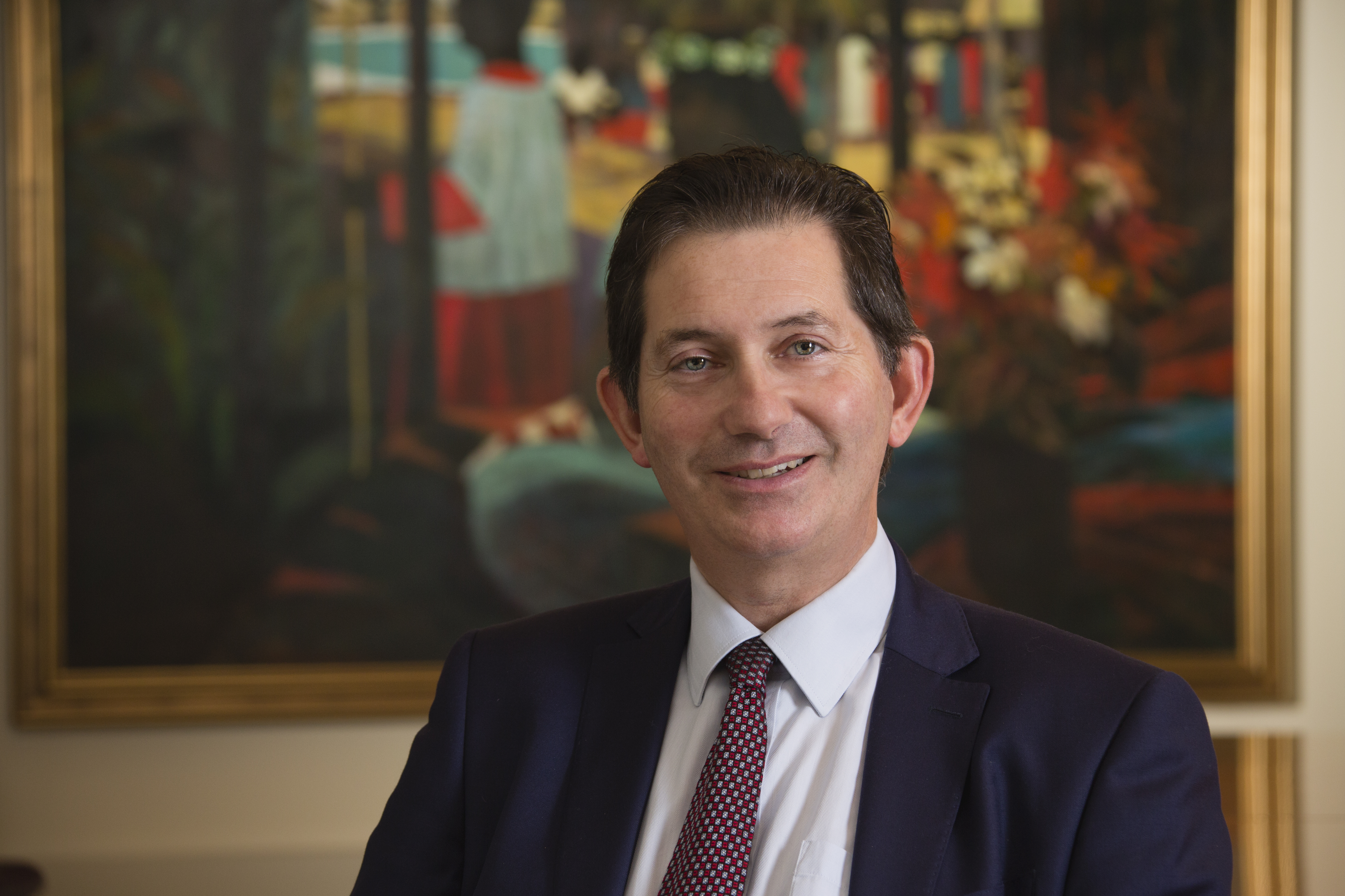 Photo of Professor Ian Jacobs